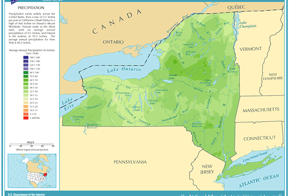 This map shows the average annual rainfall for the state of New York